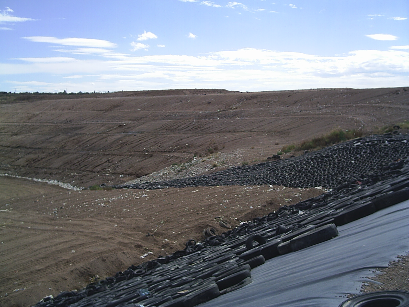 Landfill